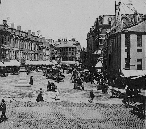 Accession No.: 06_11_000600 Title: Scollay Square, Boston, Mass. Series: Cosmos Series Local Subject: Street Views Subject: Boston (Mass.) Place of Publication: New York U.S.A Format: Derived from stereograph BPL Department: Print |Source=Scollay Square, Boston, Mass. |Date=2007-10-29 15:37 |Author=BPL